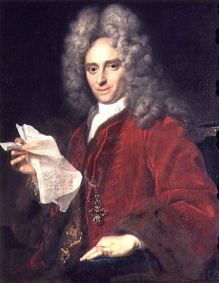 Count Alois Thomas Raimund von Harrach (1669-1742)